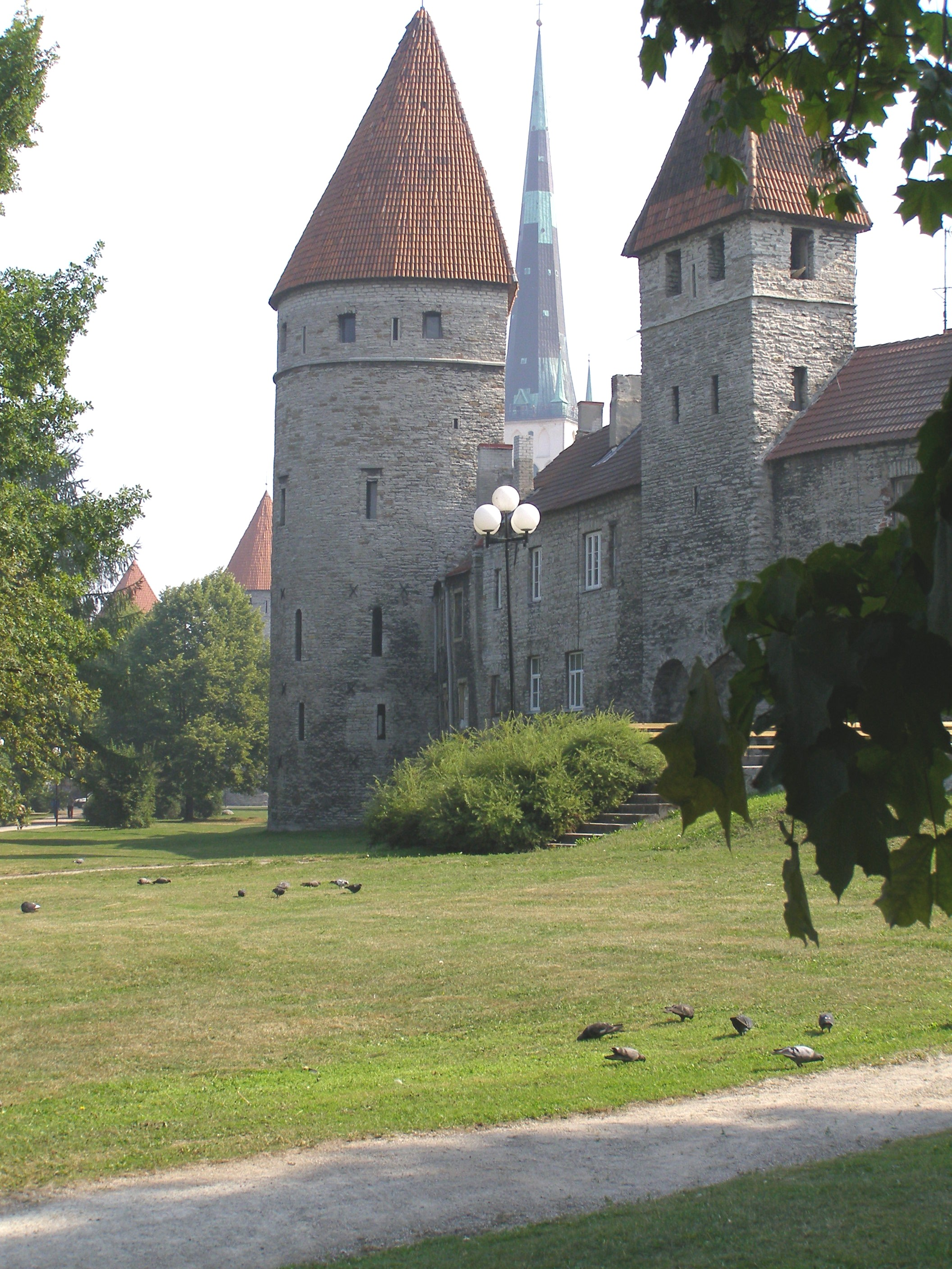 Tallinn Old Town, Town Wall